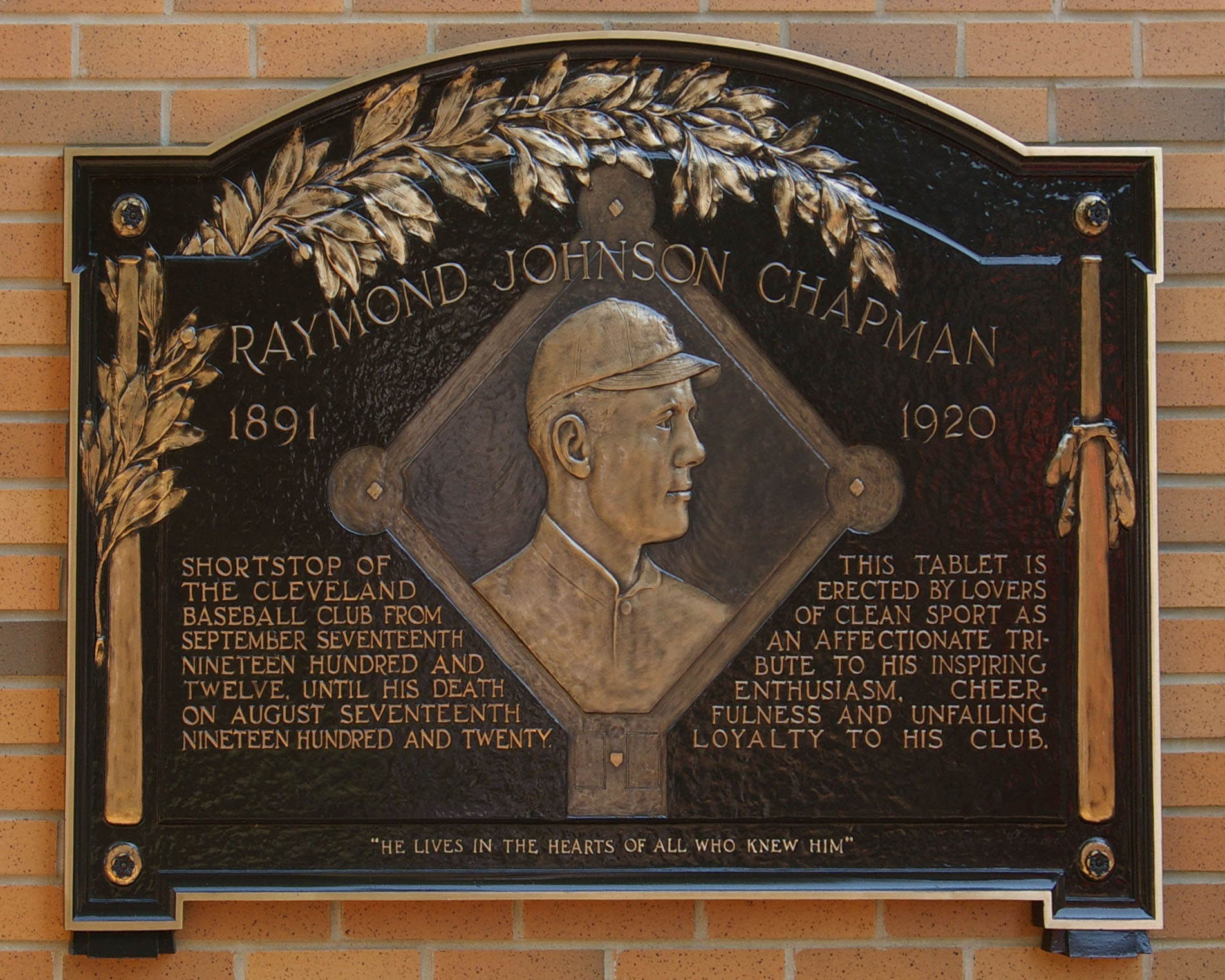 Photograph of the Ray Chapman plaque at Jacobs Field, July 2007.